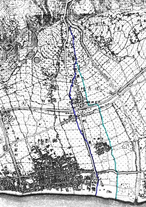 blue - Nishiusokawa light blue - Usokawa